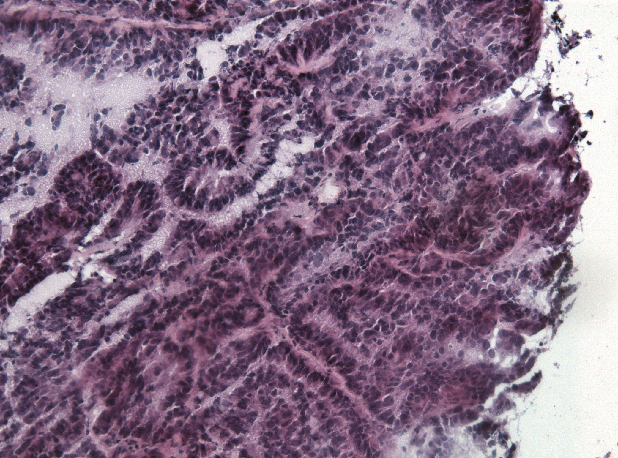 Histopathology specimen of a endolymphatic sac tumor. Intraoperative frozen section HE stain